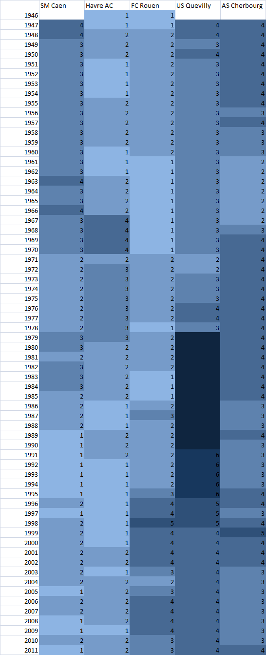 Bilan coloré depuis 1946 de quelques clubs normands